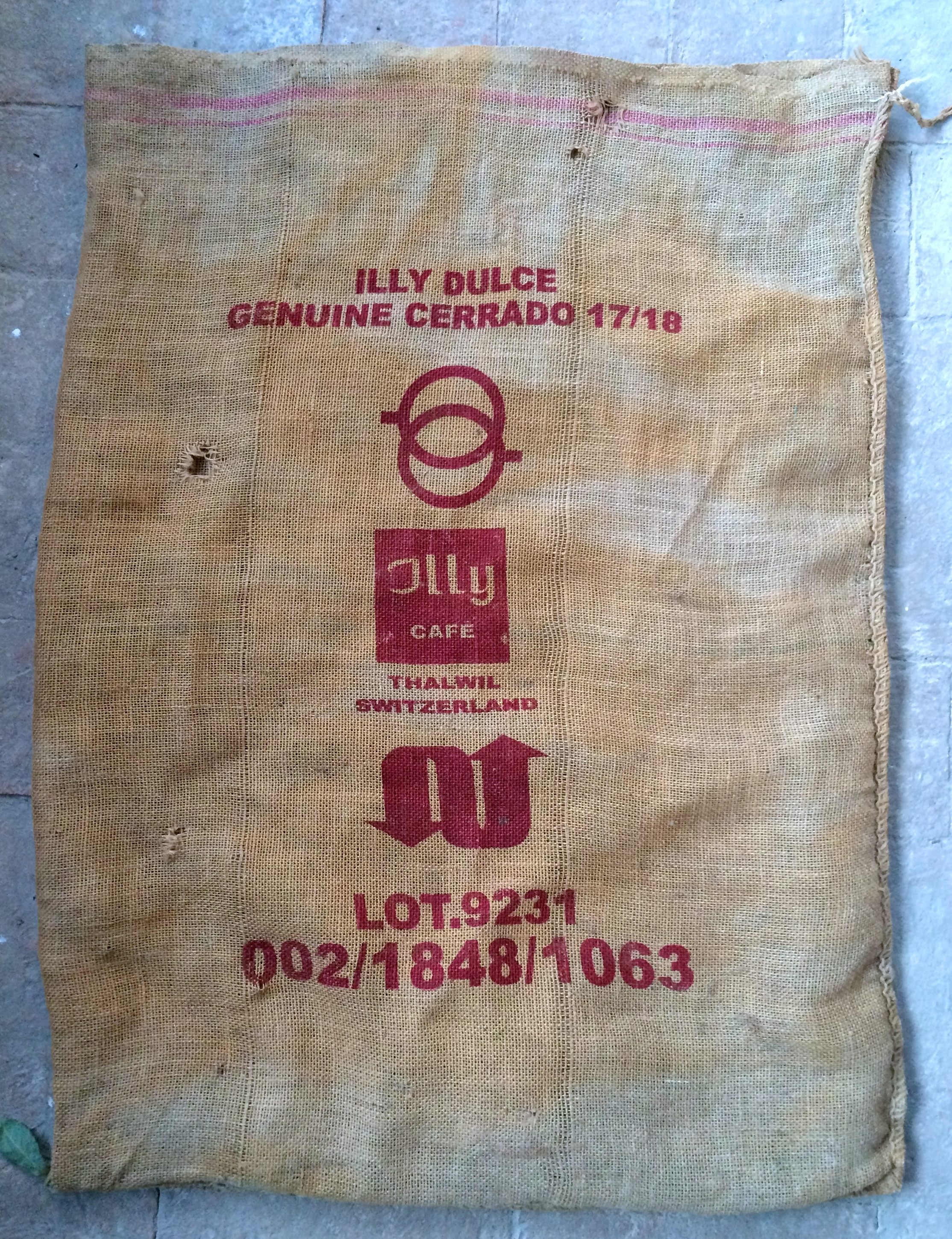 Illy (Espresso); Kaffeesack; 100x70 cm